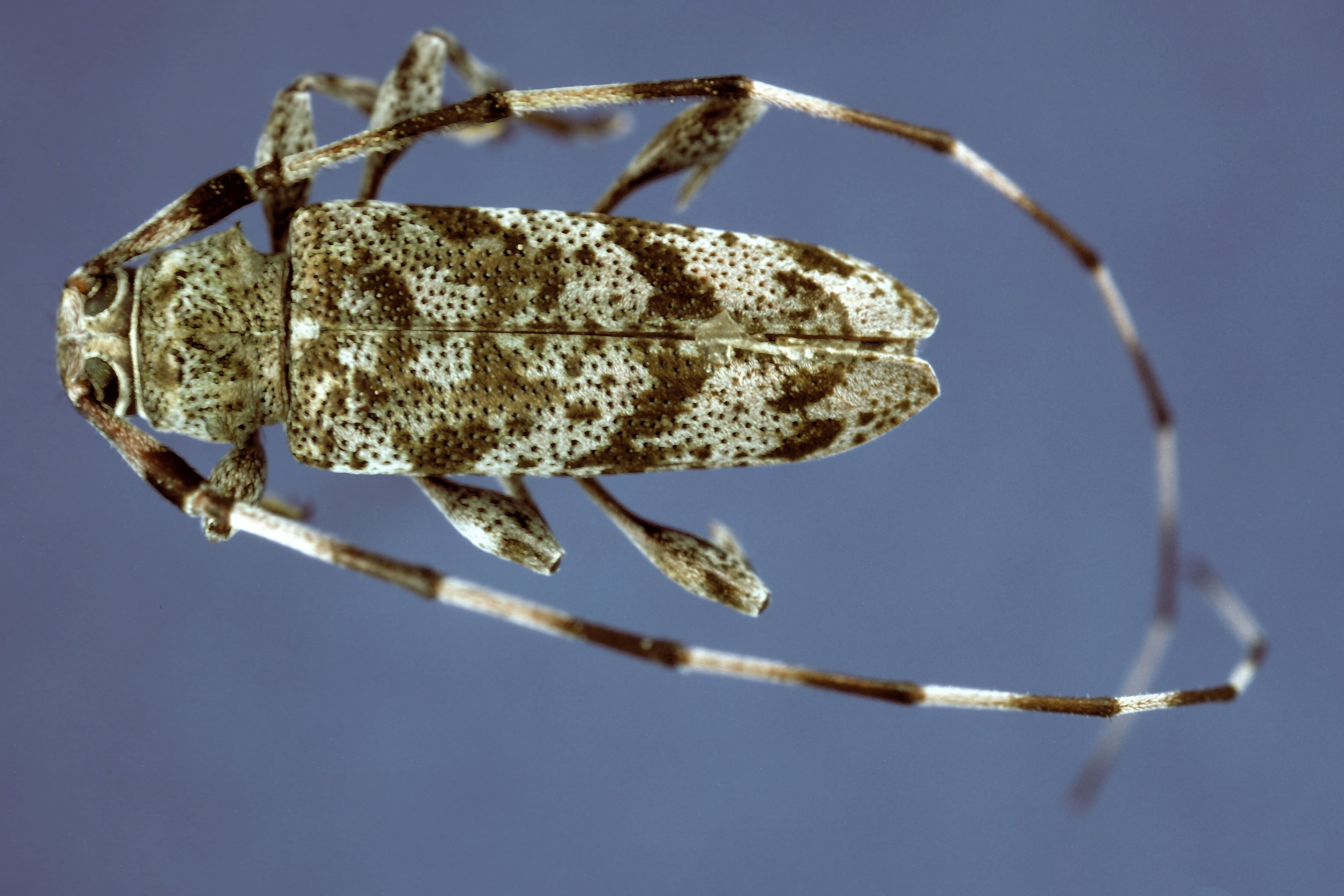 Acanthocinus obsoletus Olivier, 1795 Common Name: long-horned beetle Photographer: Gerald J. Lenhard, Louiana State Univ, United States Descriptor: Adult(s) Image taken in: United States